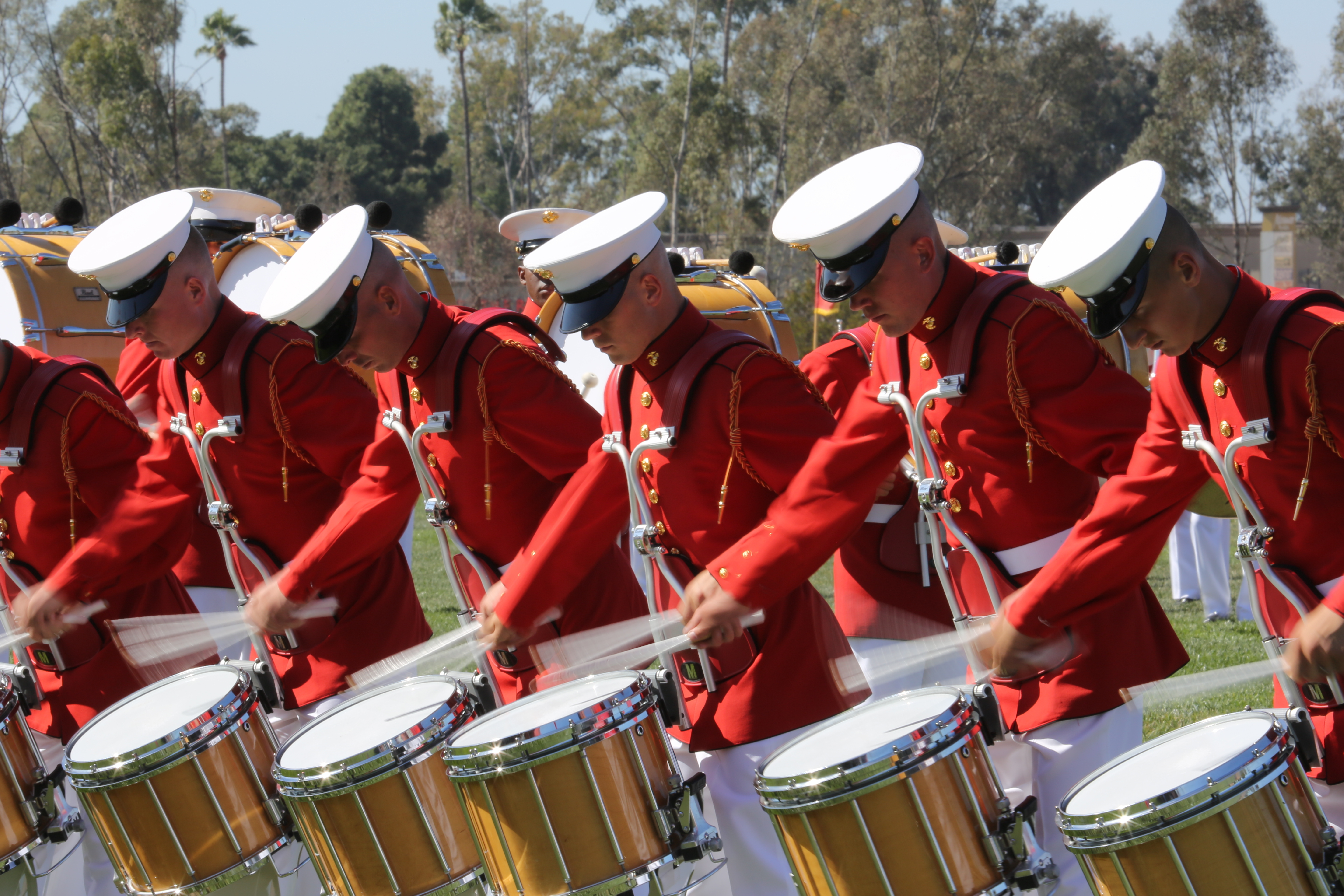 Marines from the drum line of “The Commandant’s Own” Drum & Bugle Corps perform during during a Battle Color Ceremony aboard Marine Corps Air Station Miramar, Calif., March 14. The Battle Color Detachment is a ceremonial unit from Marine Barracks Washington featuring the Drum & Bugle Corps, the Silent Drill Platoon and the Official Color Guard of the Marine Corps.